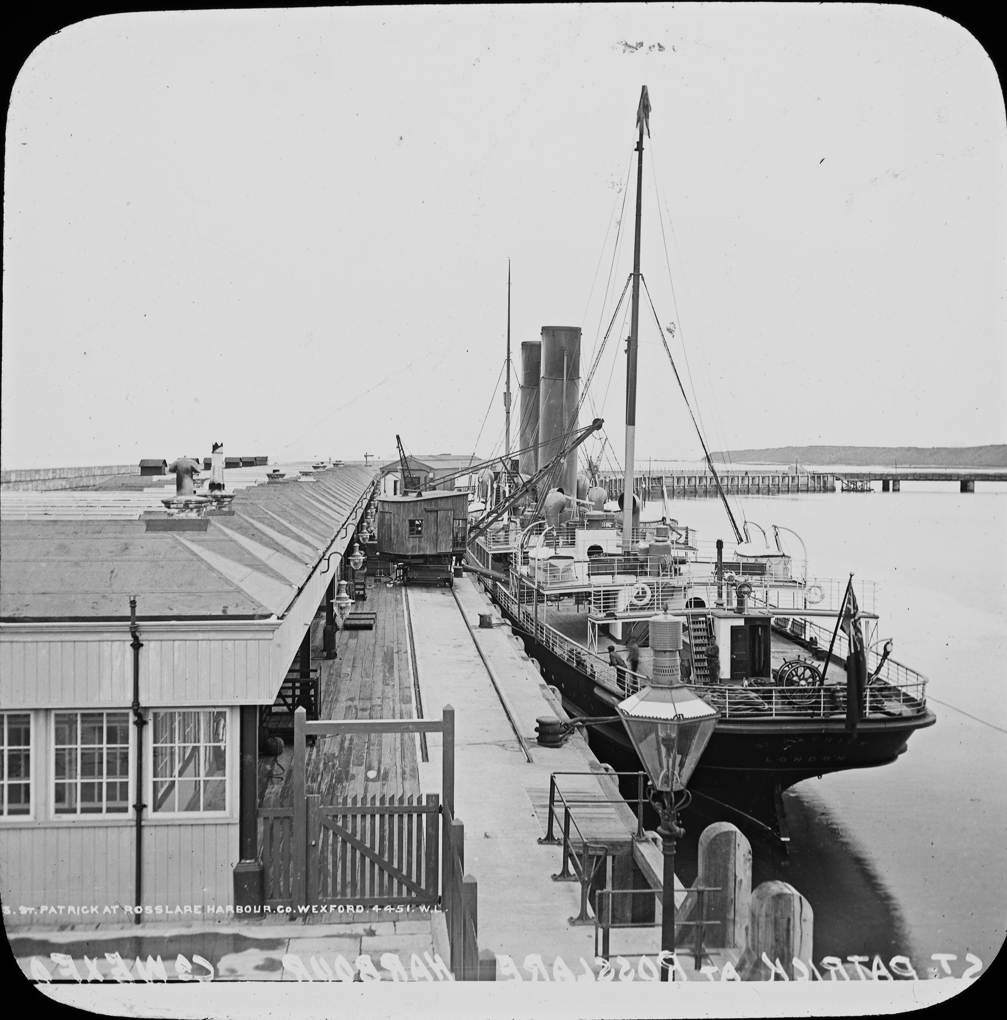 Welcome to a new week and a new set of NLI photographs for your attention. Today we start with a shot from the Mason Collection showing a ship moored at Rosslare Harbour. Following input from [/photos/66311327@N05/ B-59] (on the dates for the ship's service) and [/photos/swordscookie/ Sean] (on the dates for the pier construction), we've updated our range to a likely 1906-1910. Thanks also to [/photos/beachcomberaustralia/ beachcomberaustralia], [/photos/johnspooner/ John Spooner], and [/photos/91549360@N03/ O Mac] for the extra background on the vessel, the route it serviced, and what happened to it later in its life. (Including its time as a "hospital ship" during the Great War). [/photos/129555378@N07/ Sharon] stirred-things-up by pointing out that this image is attributed in our catalogue to two photography studios: both Mason and Lawrence. But for now we'll assume there was nothing nefarious afoot :) TrSS St Patrick (1906) Contributor: Thomas H. Mason Collection: Mason Photographic Collection Date: ca. 1890-1910 (but likely after 1906) NLI Ref: M22/47/4 You can also view this image, and many thousands of others, on the NLI’s catalogue at